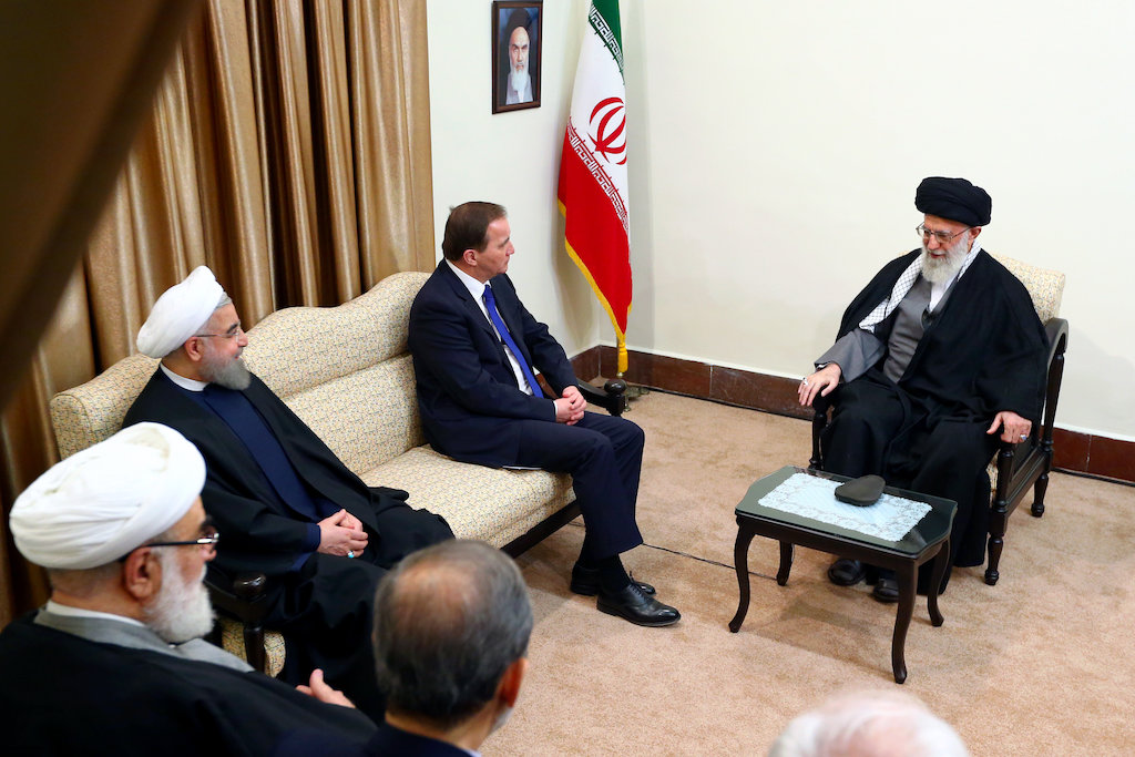 Swedish Prime Minister in meeting with Ali Khamenei, Supreme Leader of Iran, and Iranian President Hassan Rouhani accompanied him